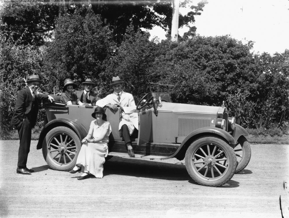 1925 Gray tourer with passengers, Brisbane.. This is a promotional photo for the American-built Gray Model O tourer of 1925, from the Brisbane agents, Canada Cycle and Motor Agency Ltd. Gray cars were built in Detroit and had many similarities to Ford cars, including a 2.7 litre, 20 hp., side-valve four cylinder engine. They were intended to compete head on with the ubiquitous Ford Model T in features and price, but this did not prove so easy. Note there are no outside door handles as a cost saving measure, and no front wheel brakes on this 1925 model. Front brakes were included in the 1926 model, the final year the Gray car was produced. In 1925 the company President (and former Vice President of Ford Motor Co), Frank L Klingensmith resigned his post at Gray and 'took an extended vacation in Australia'. 'Most light cars have been bought in spite of their discomforts. Transportation - the 'they get us there anyway' spirit - has bought thousands of light cars. But why not have comfort along with the get-there idea? Gray cars have refined comfort to an unusual degree. There are forty different features which make Gray cars comfortable, easy to drive and economical. It will pay you to investigate all of them before you buy a car.' (Advertisement from the Queensland motoring journal 'The Steering Wheel', January 1, 1924. In 1924 the Gray touring car sold for 295 pounds.).